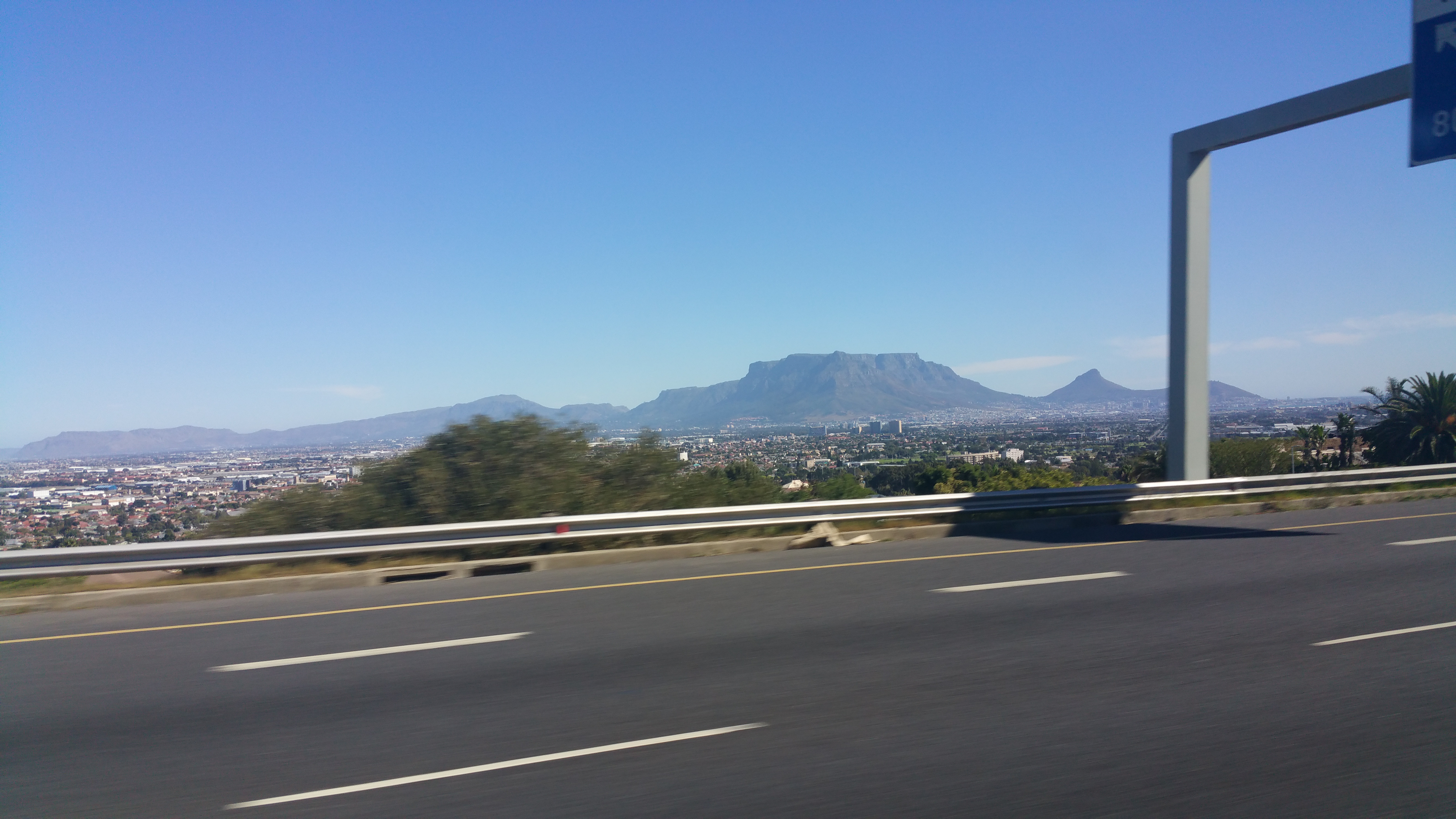 Table mountain